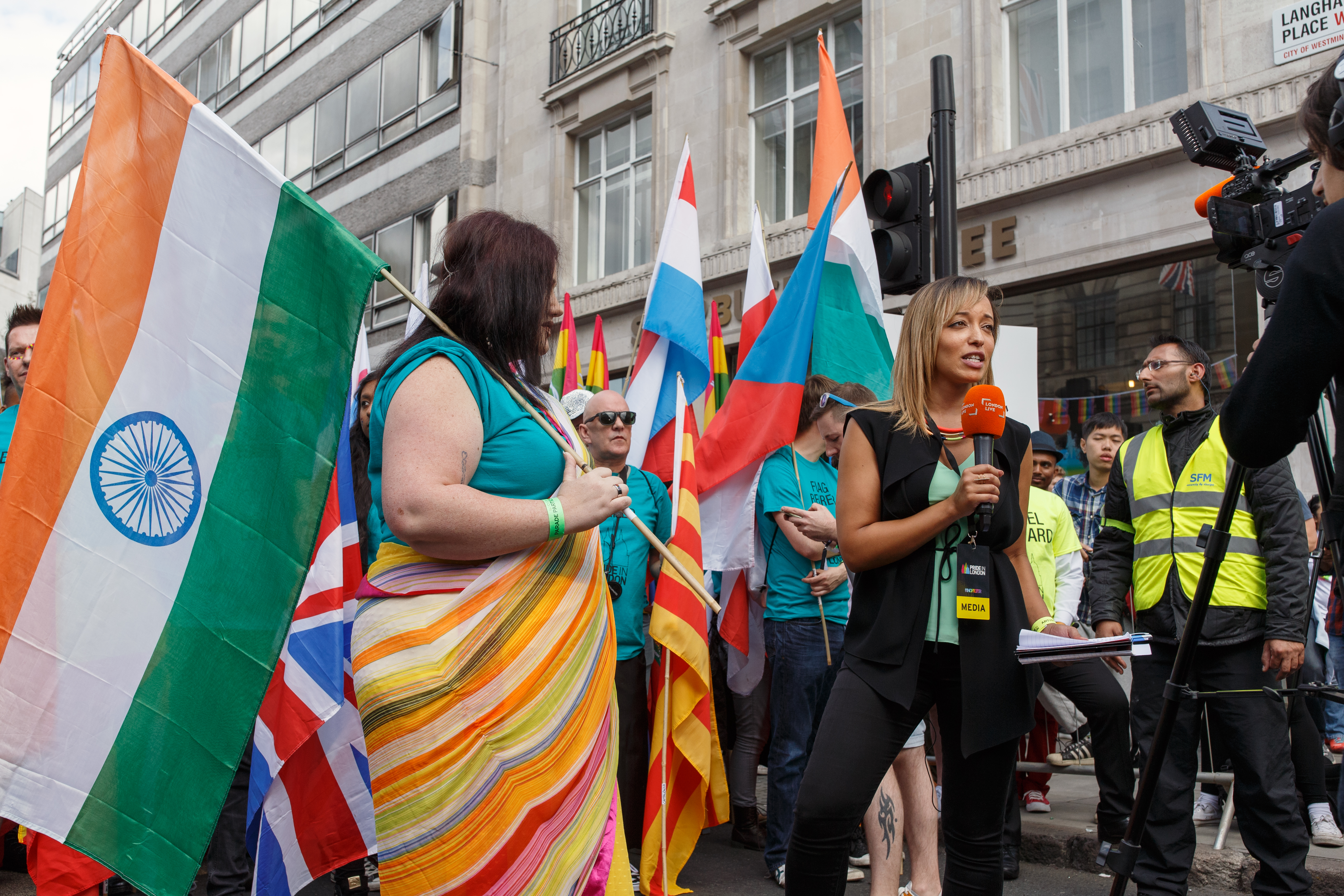 A reporter from local television station London Live interviews the flag bearer for India before the parade at Pride in London 2016.